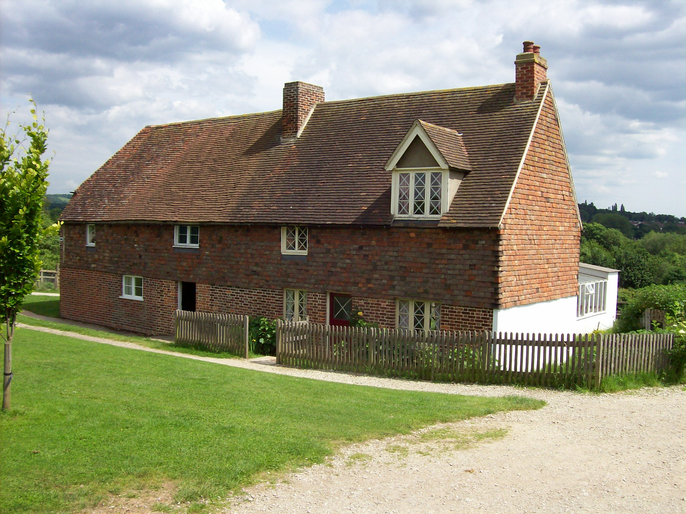 The cottages from Lenham re-erected at the Museum of Kent Life